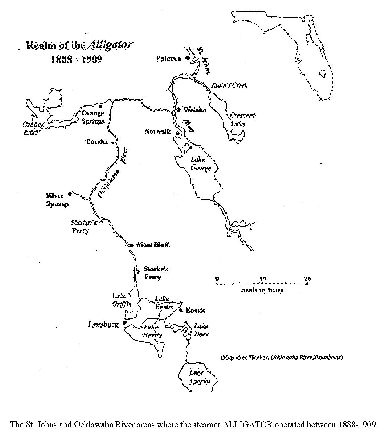 Route of the paddlesteamer Alligator.